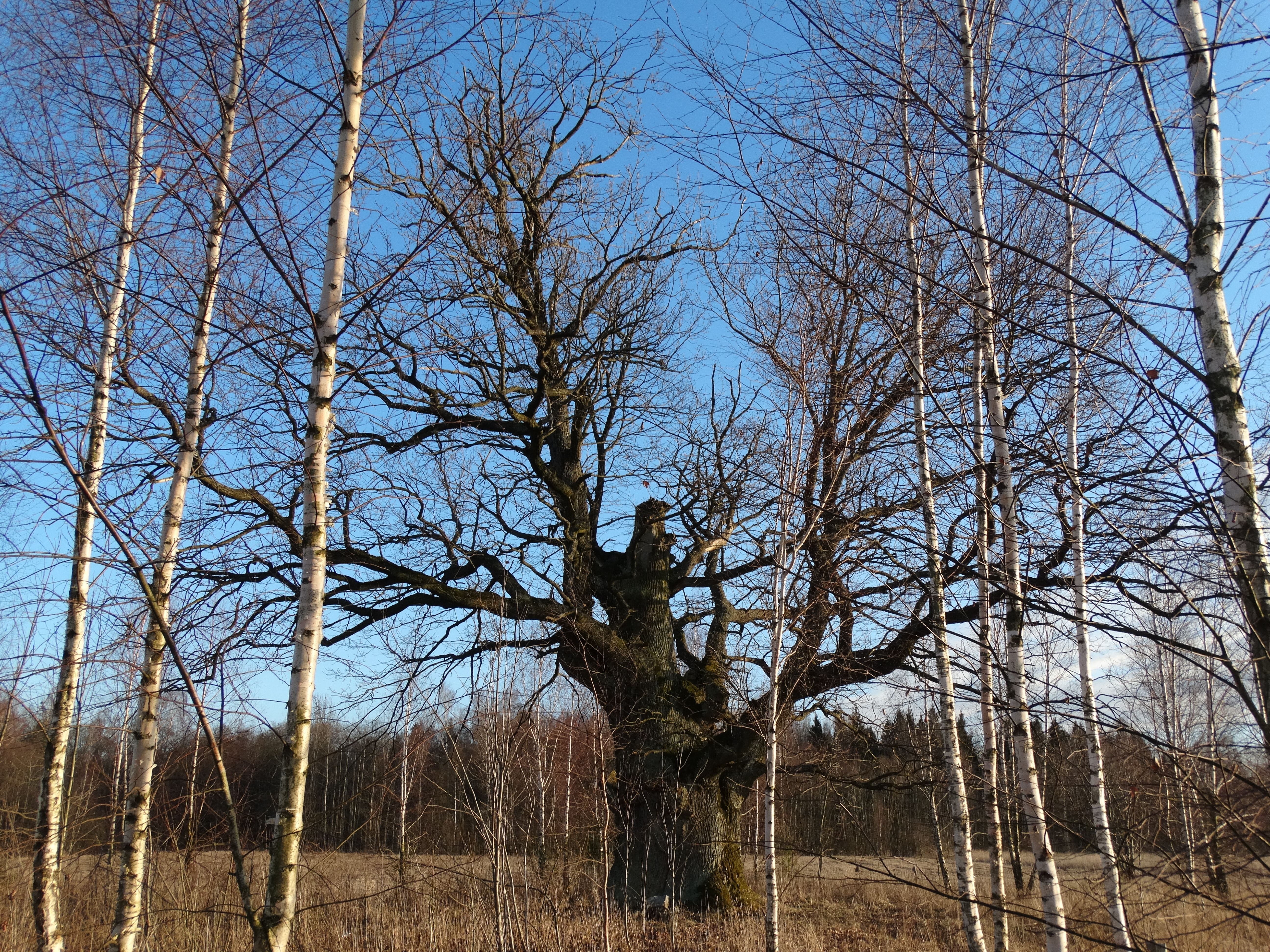 Karvelių oak, Pypliai village, Kaunas district, Lithuania